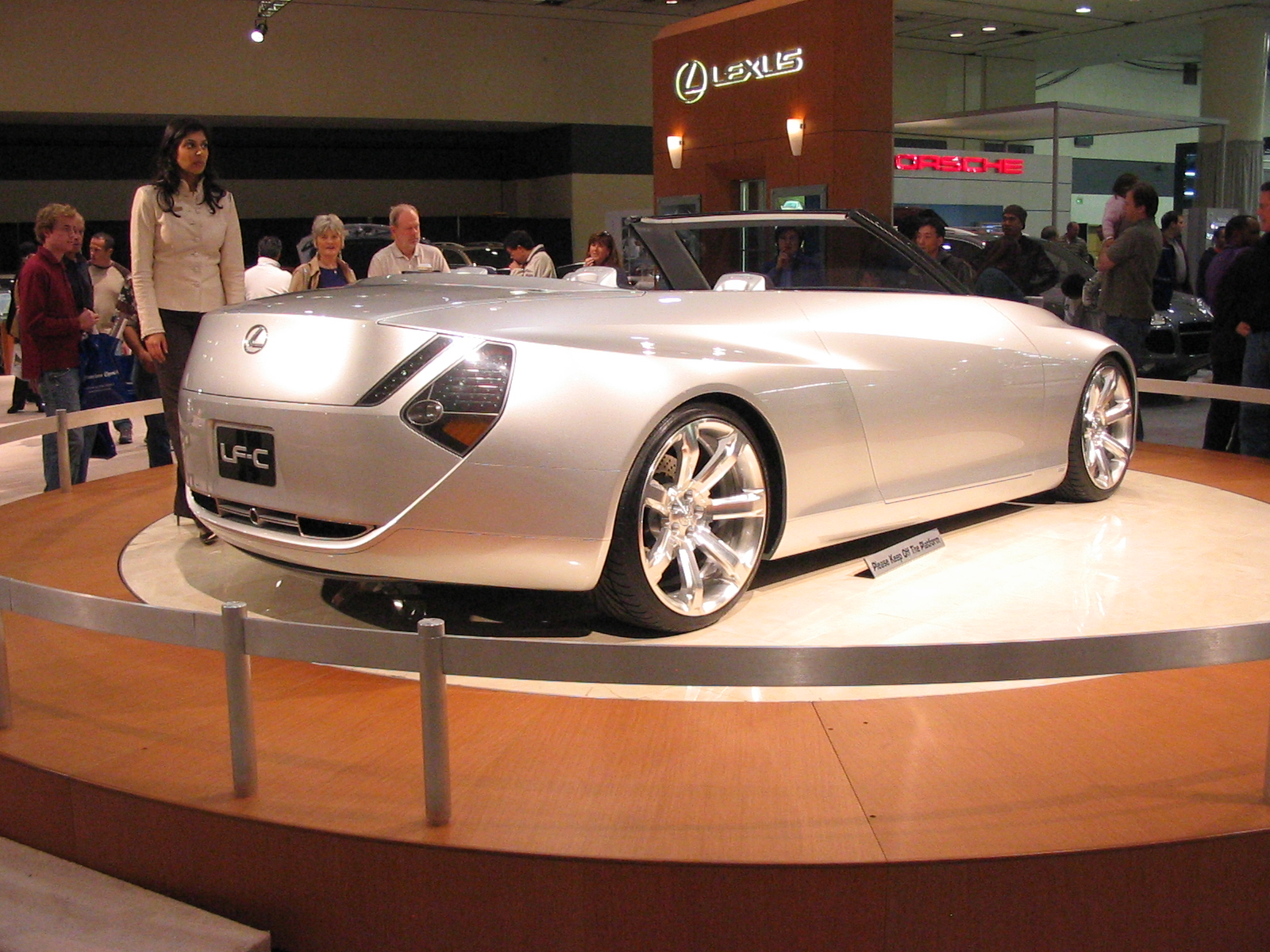 Lexus LF-C taken by me, Old Guard, at the San Francisco International Auto Show in 2005